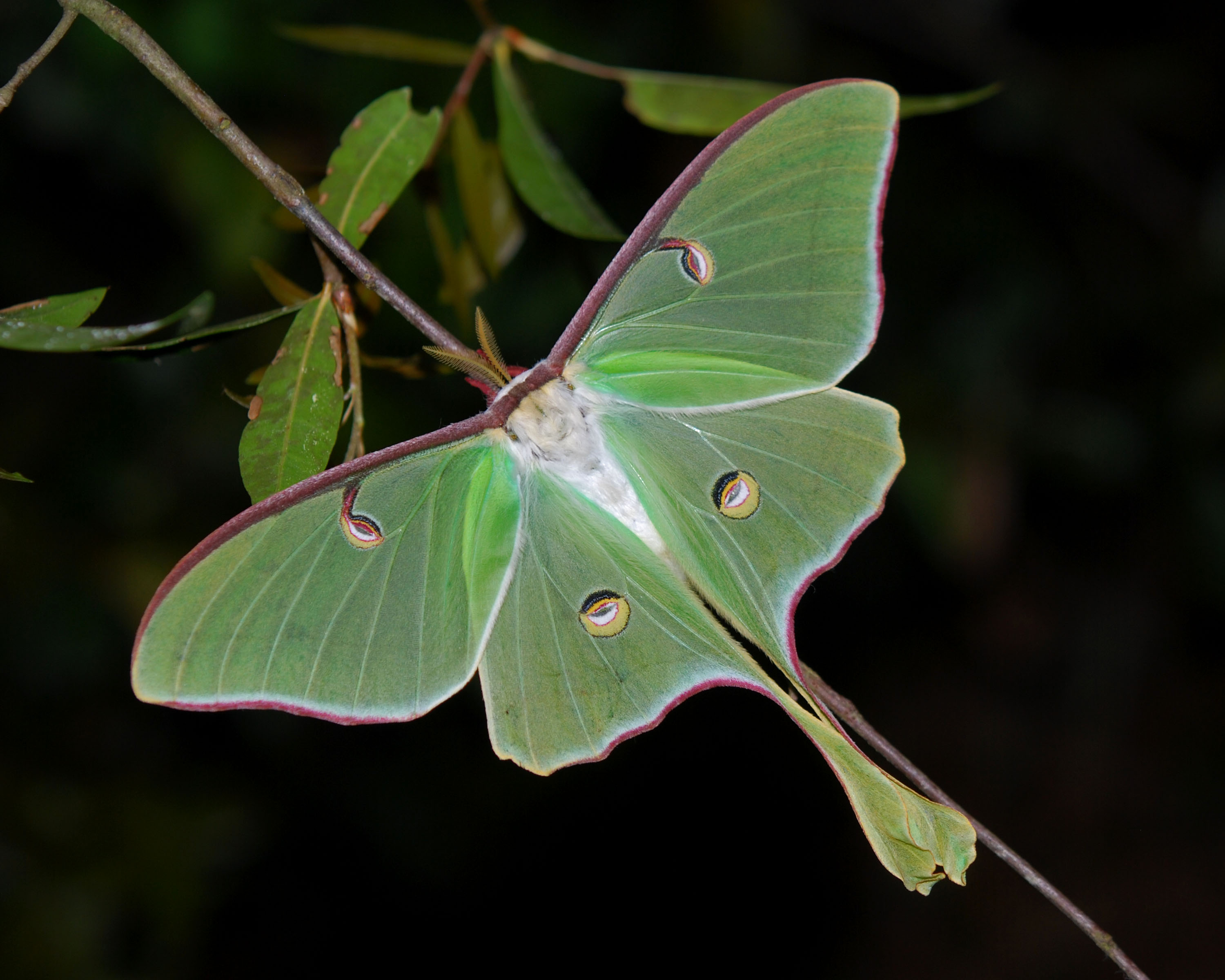 Luna moth (Actias luna), Micanopy, Alachua County, Florida.